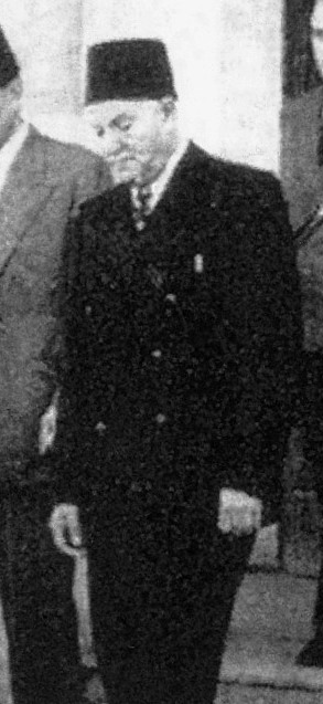 Mohammed Sakizli, prime minister of Libya (February-April 1954).